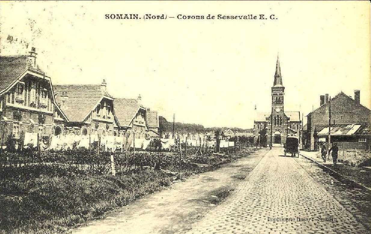 Somain, Nord-Pas-de-Calais, France.